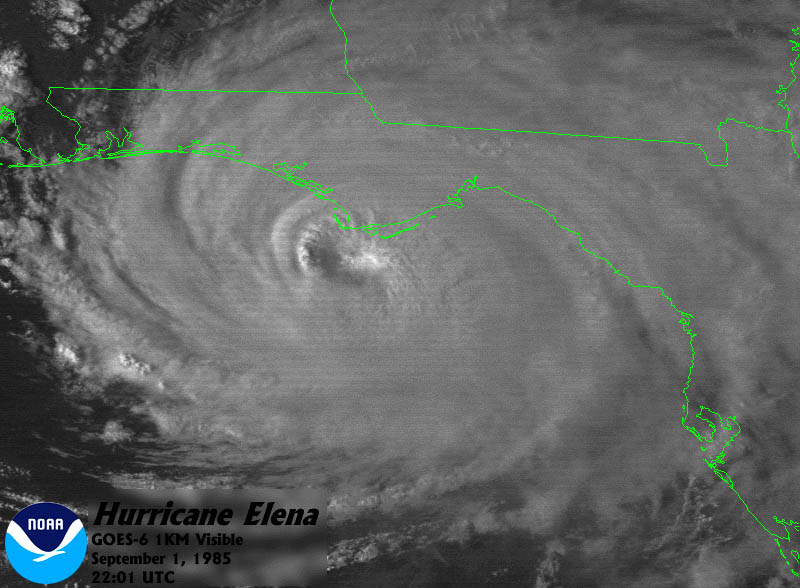 Hurricane Elena travels west along the Florida Panhandle.